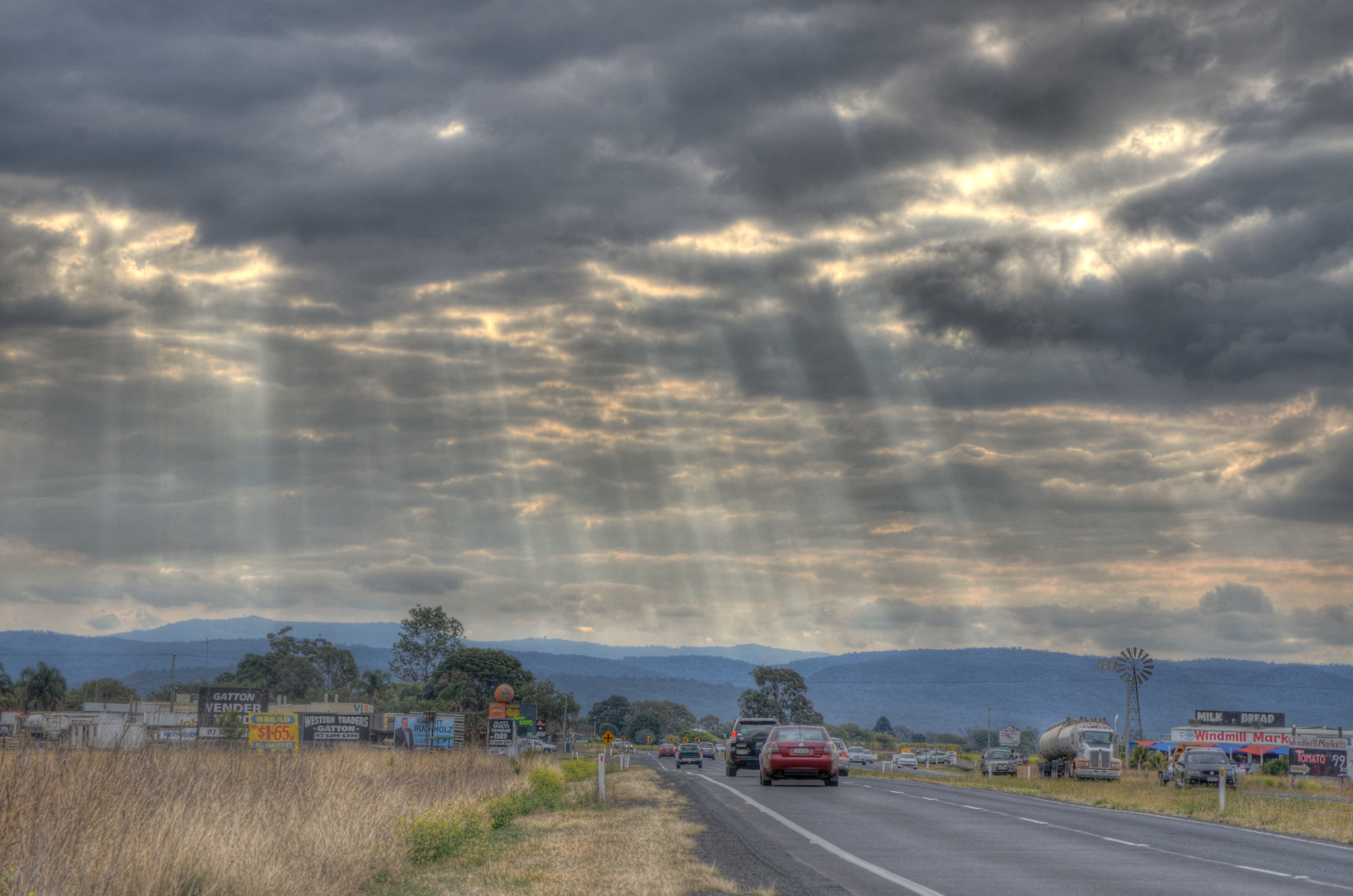 Light shining through clouds in the Lockyer Valley, Qld, Australia. [Crowley Vale on the Warrego Highway (A2), looking west.]